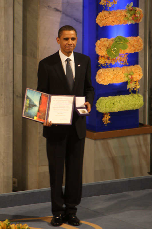 United States President Barack Obama at the 2009 Nobel Peace Prize ceremony in Oslo.